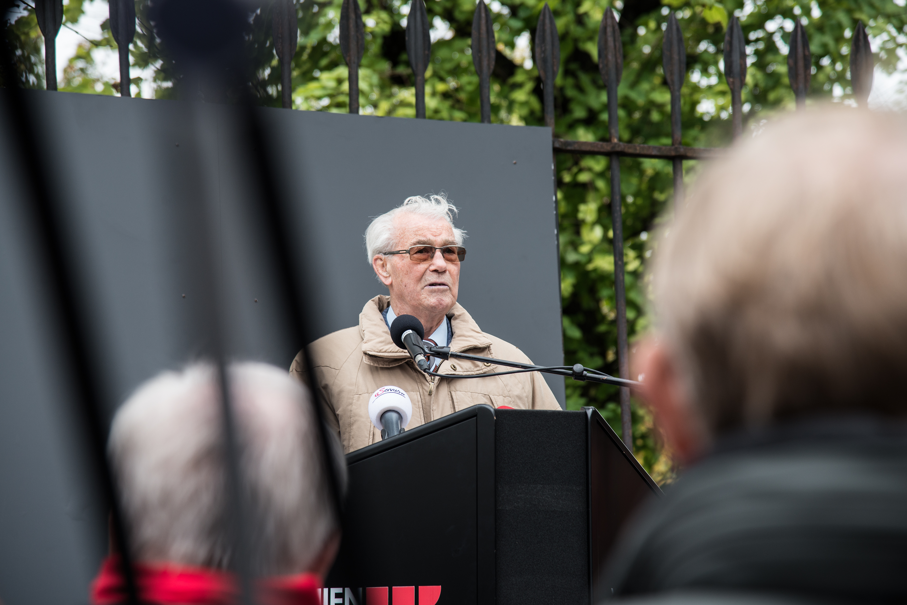 Richard Wadani speaks at the Opening of the Monument for the Victims of Nazi Military Justice at the Ballhausplatz in Vienna